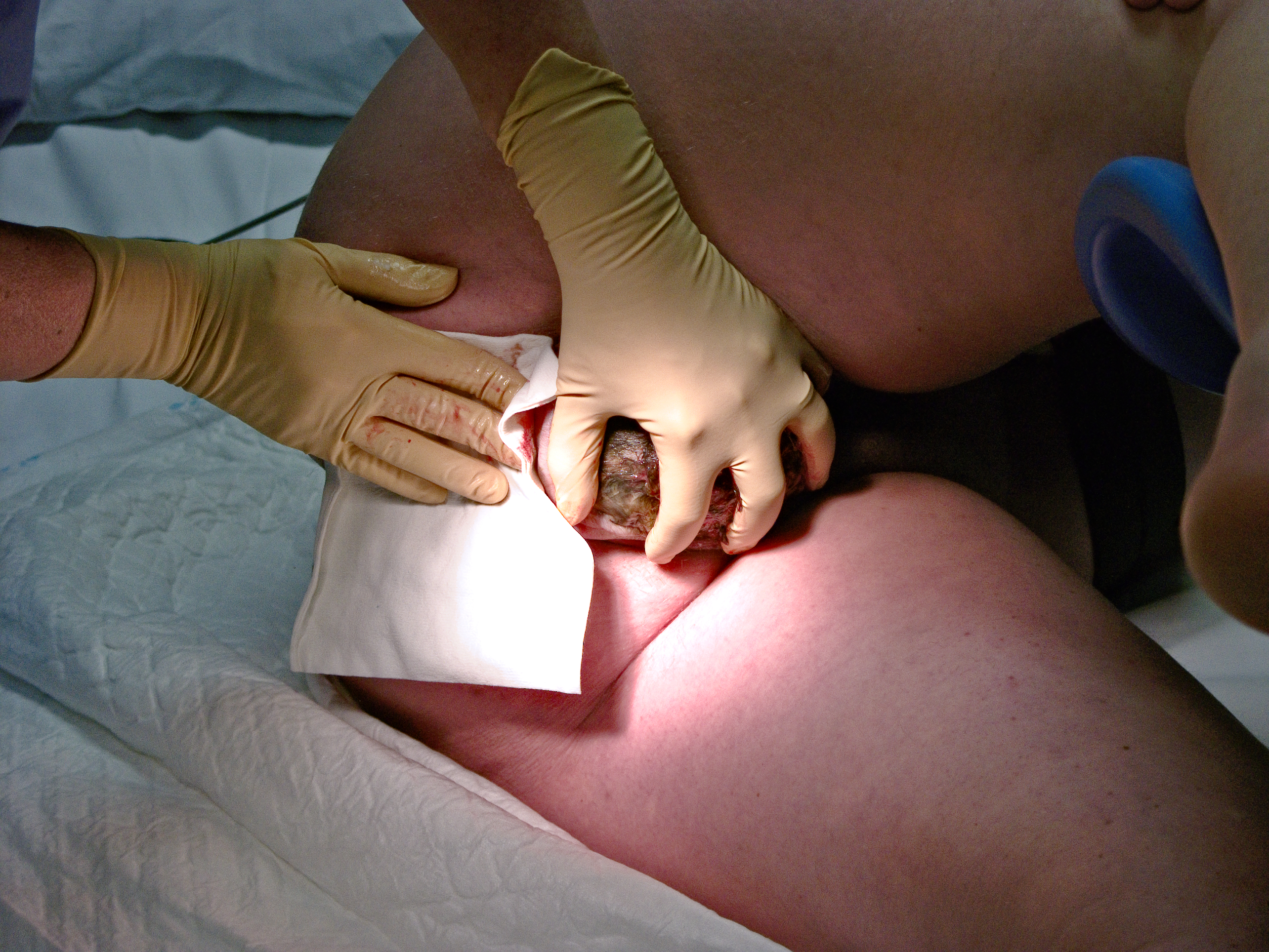 A newborn's head, visible during a side-lying childbirth.